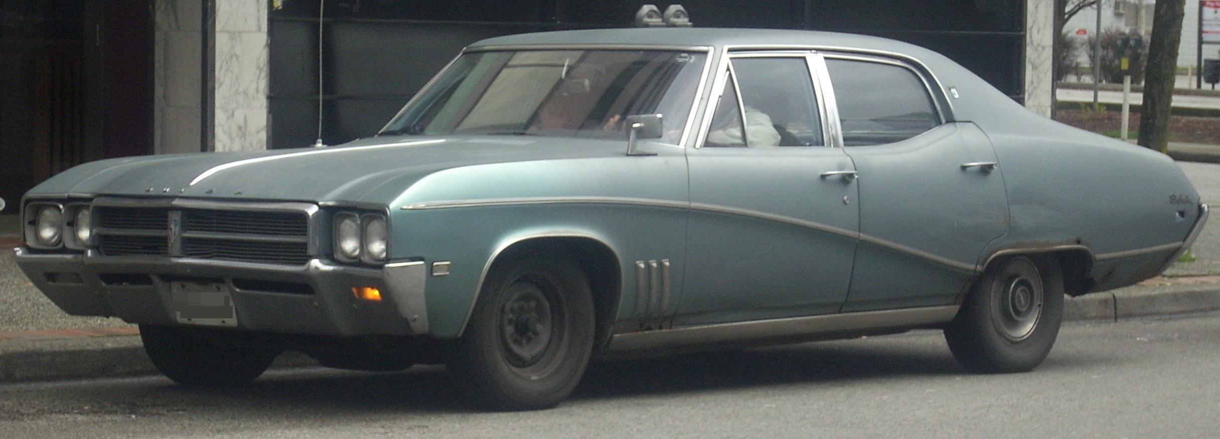 Buick Skylark photographed in New Westminster, British Columbia, Canada.